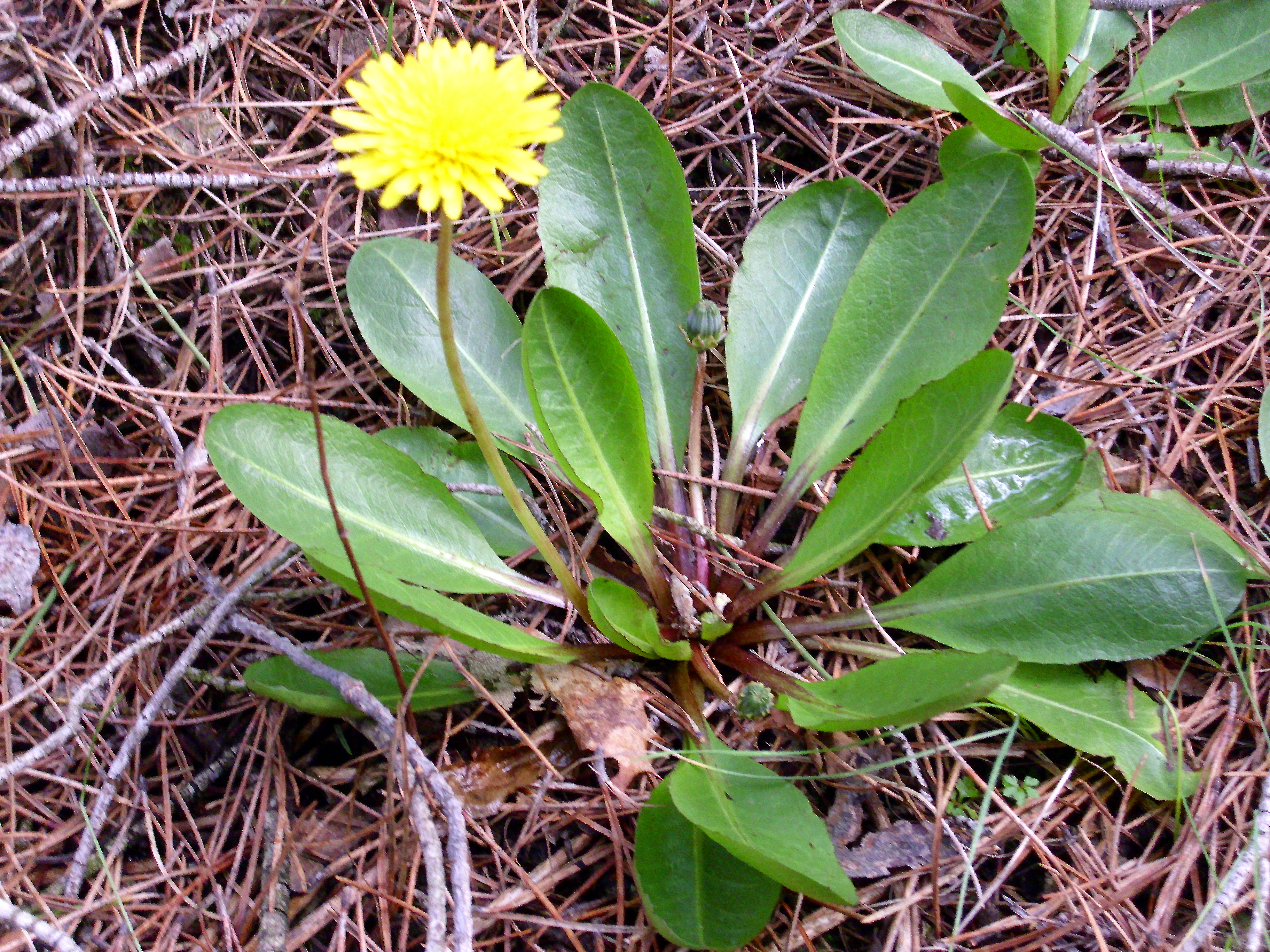 Taraxacum obovatum habit, Dehesa Boyal de Puertollano, Spain